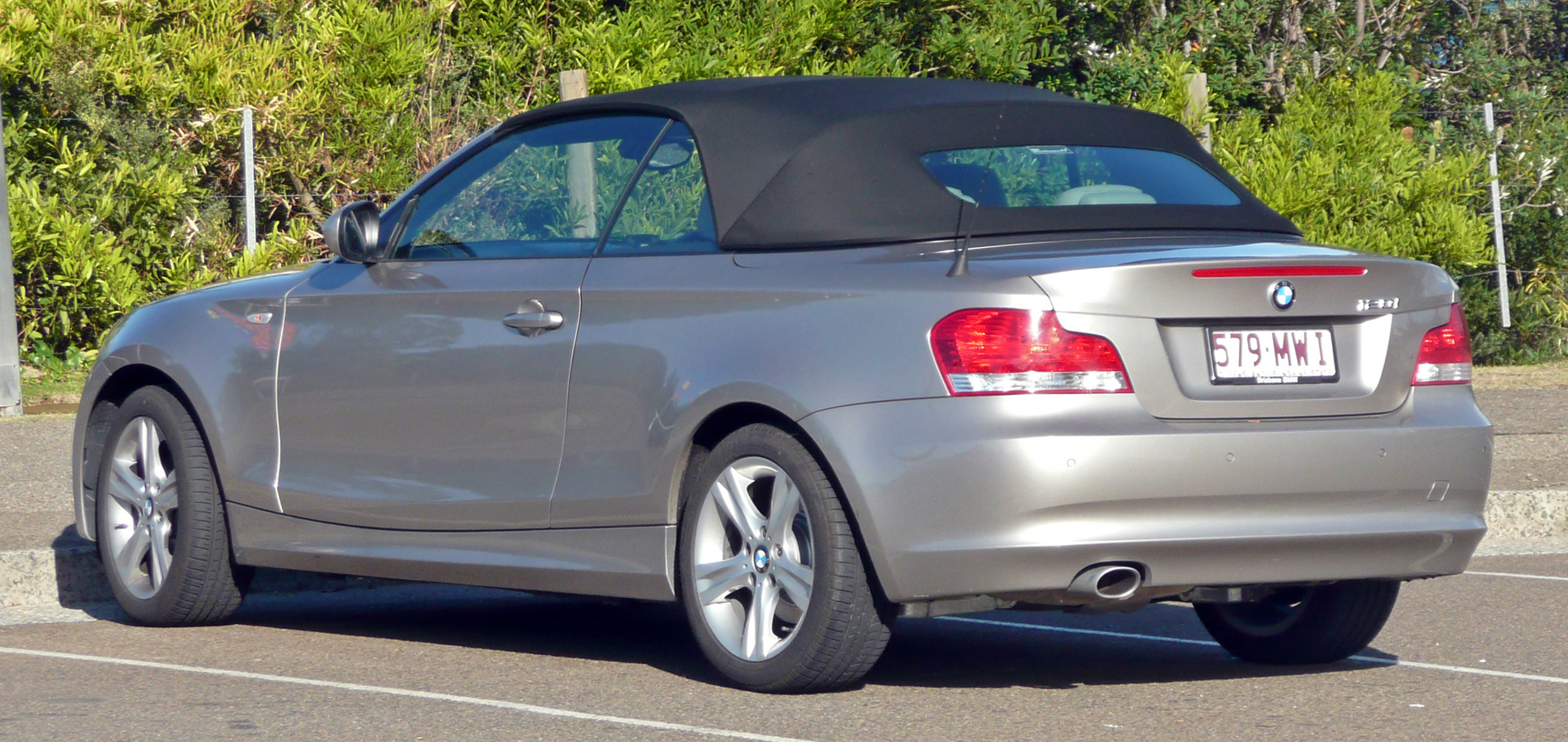 2008–2010 BMW 120i (E88) convertible. Photographed in Cronulla, New South Wales, Australia.